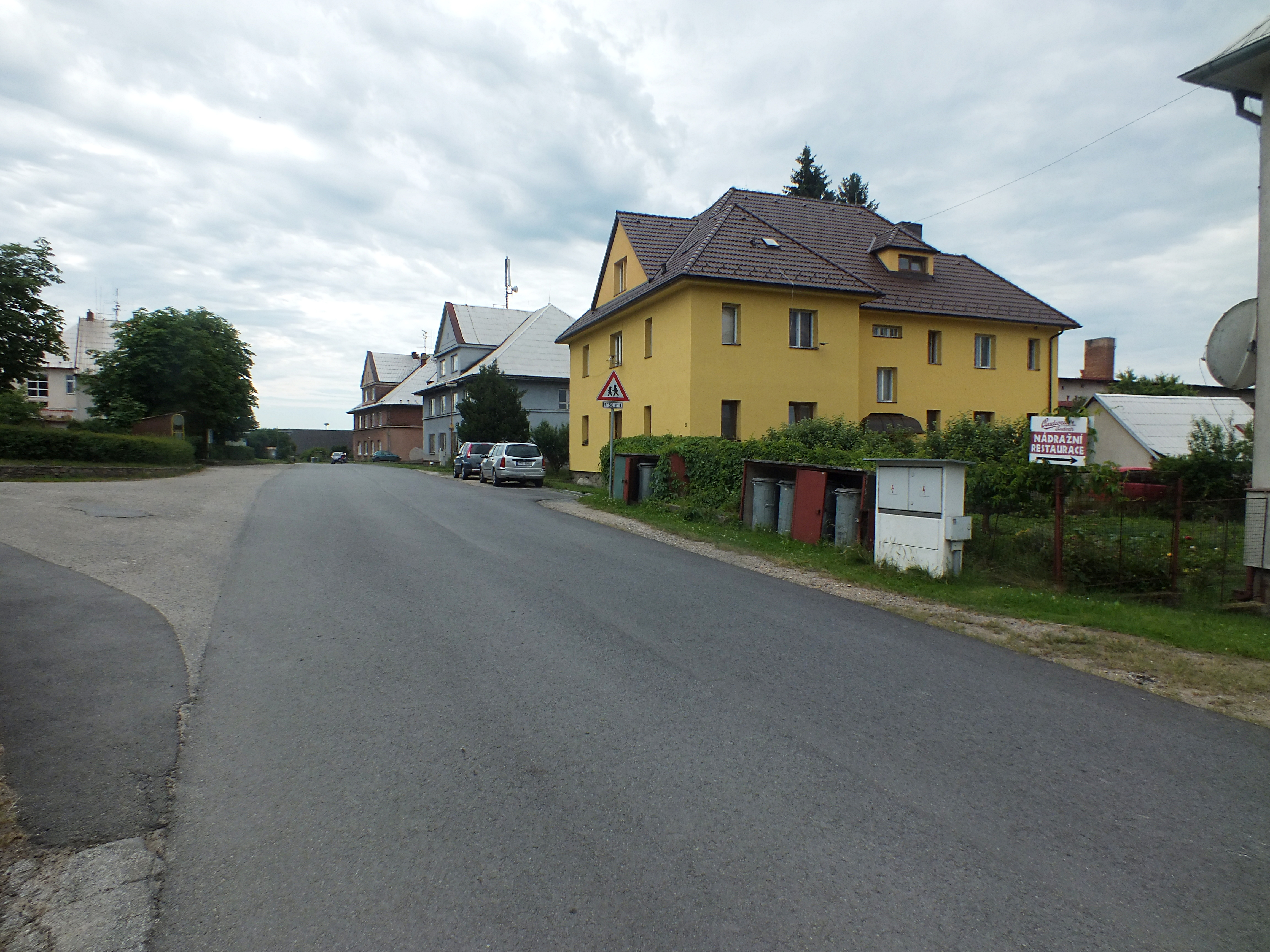 The main street of Český Heršlák